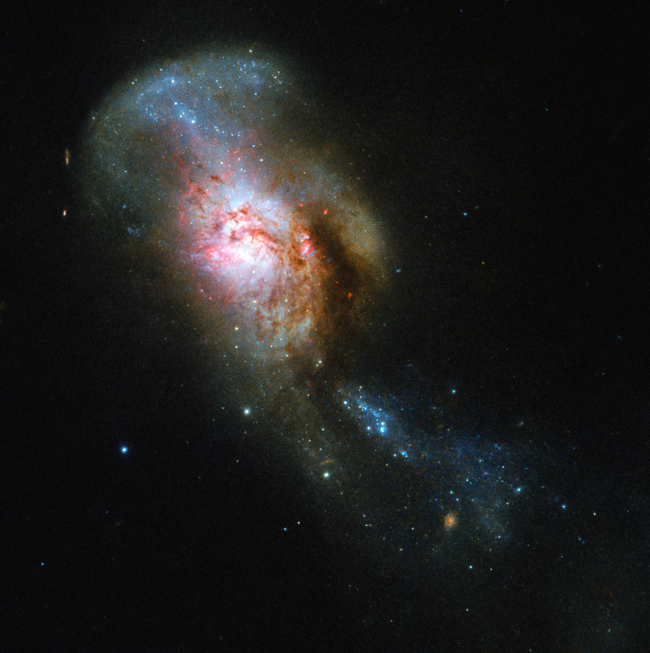 The galaxy pictured in this Hubble Picture of the Week has an especially evocative name: the Medusa merger. Often referred to by its somewhat drier New General Catalogue designation of NGC 4194, this was not always one entity, but two. An early galaxy consumed a smaller gas-rich system, throwing out streams of stars and dust out into space. These streams, seen rising from the top of the merger galaxy, resembles the writhing snakes that Medusa, a monster in ancient Greek mythology, famously had on her head in place of hair, lending the object its intriguing name. The legend of Medusa also held that anyone who saw her face would transform into stone. In this case, you can feast your eyes without fear on the centre of the merging galaxies, a region known as Medusa's eye. All the cool gas pooling here has triggered a burst of star formation, causing it to stand out brightly against the dark cosmic backdrop. The Medusa merger is located about 130 million light-years away in the constellation of Ursa Major (The Great Bear).